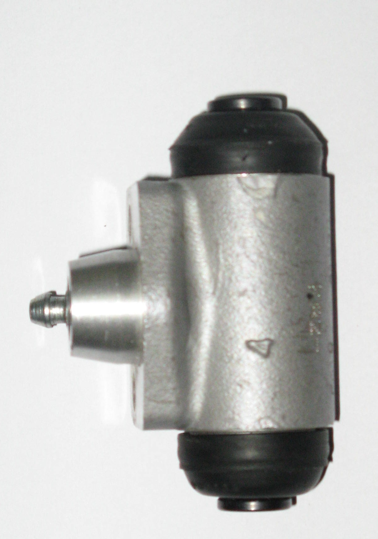 The image depicts a wheel cylinder assembly used in a drum brake assembly